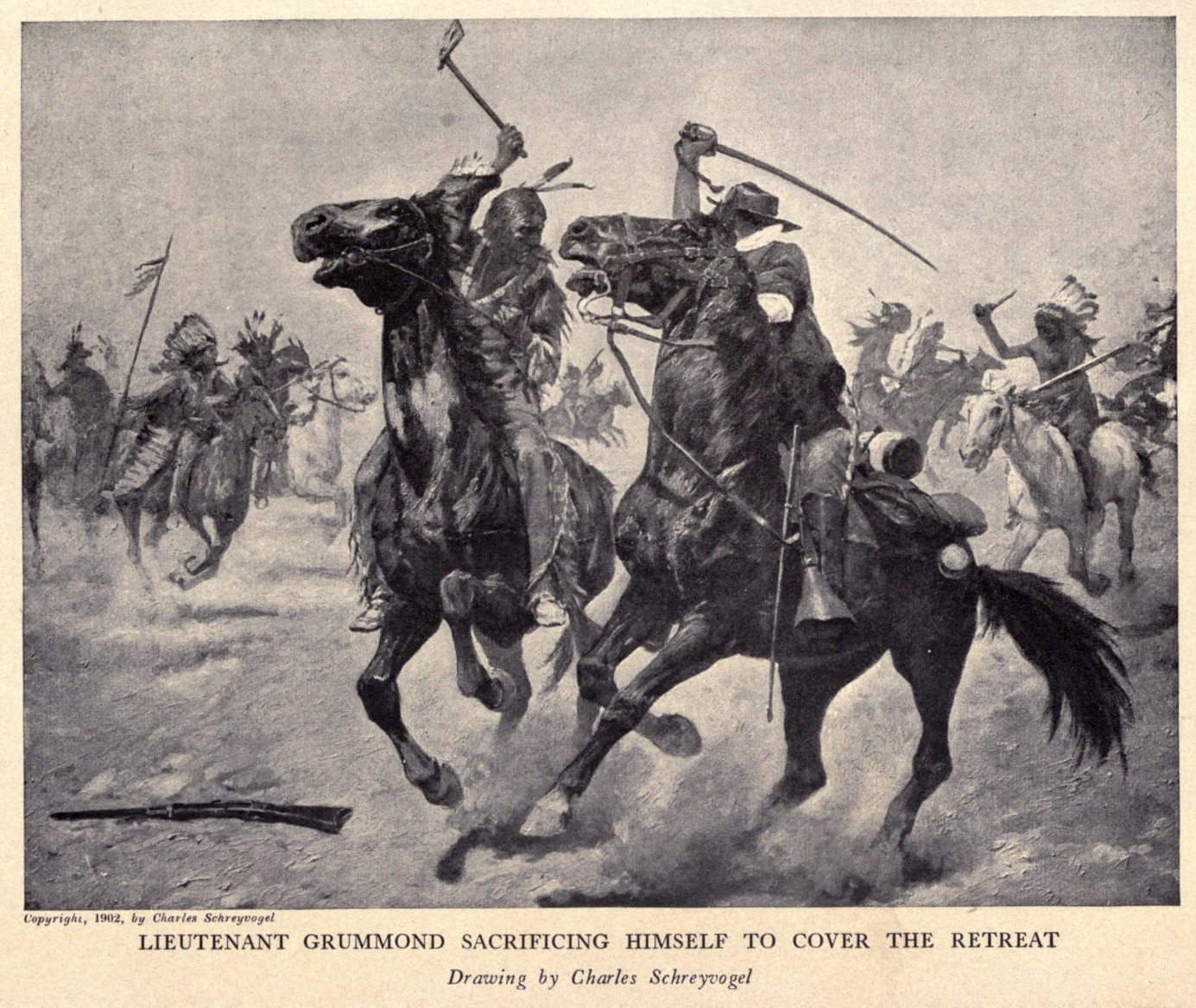 Even Chance[1] A Native American (Plains) man, who holds a tomahawk, and a white cavalry man, who holds a sword, fight. Other combatants are nearby. Circa 1875, published in Brady, Cyrus Townsend, 1861-1920. Indian Fights And Fighters: the Soldier And the Sioux. New York: McClure, Phillips & Co., 1904.